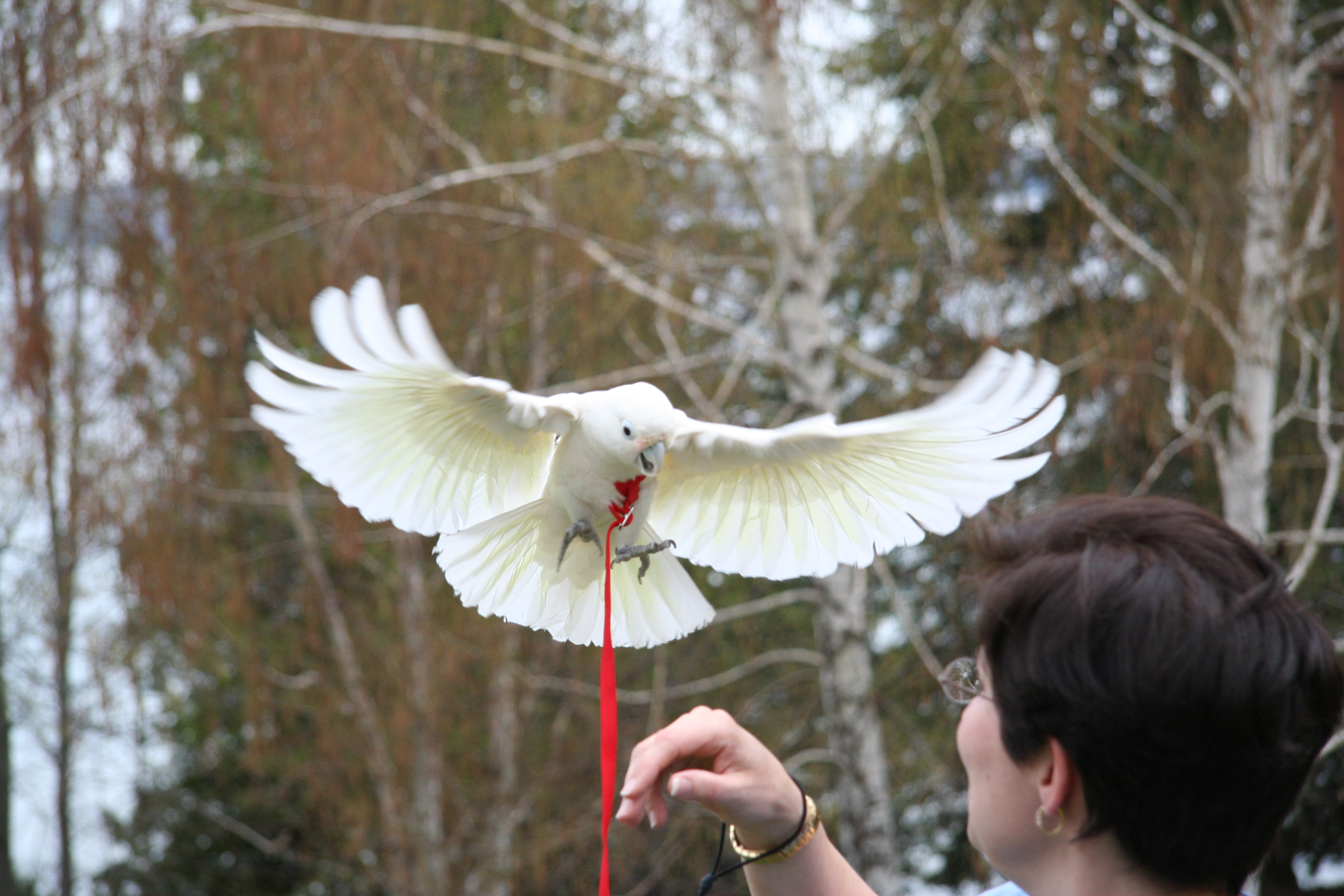 A pet Goffin's Cockatoo in flight and about to land. It is wearing a harness.